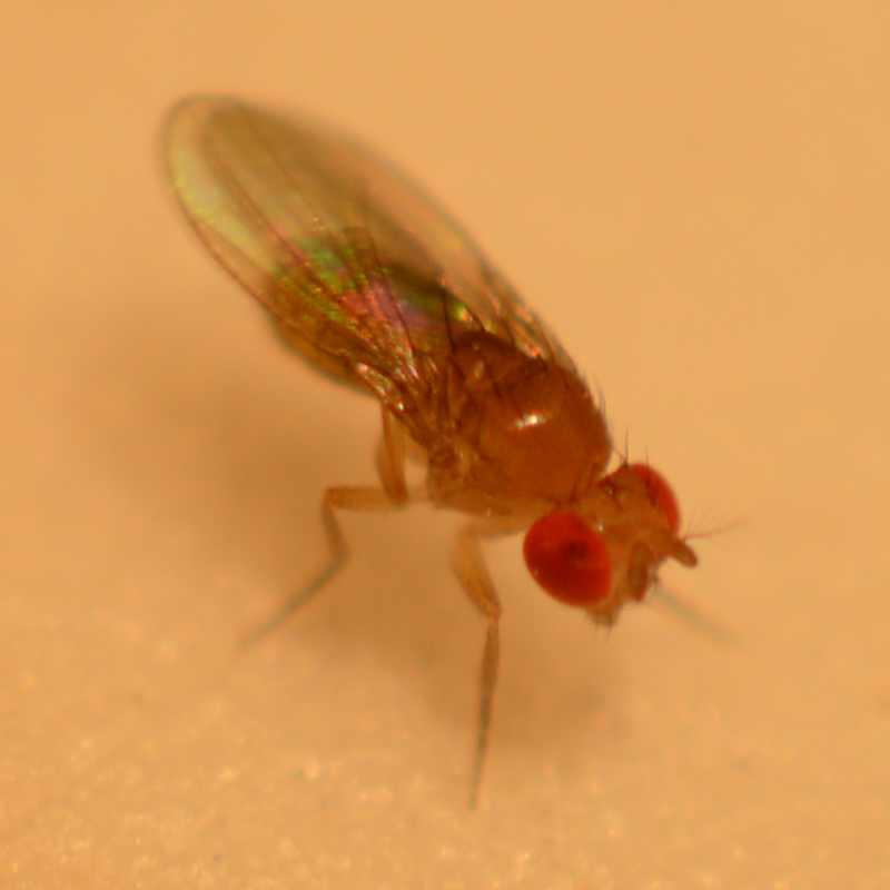 Drosophila paulistorum male.